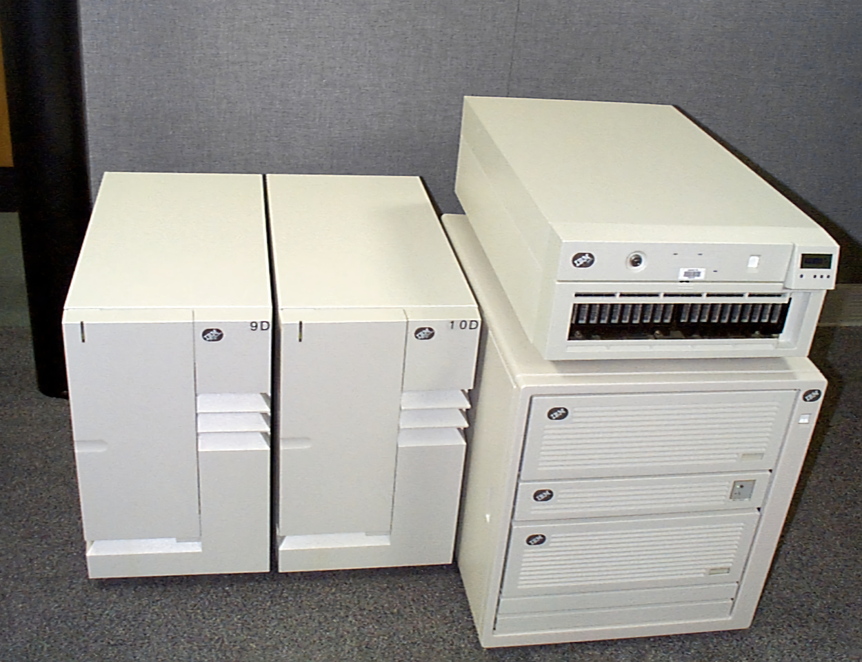 File servers used by IBM for in the late 1990's. These are RS/6000 AIX servers. The author writes: " used AFS to share files amongst systems in Schaumburg, IL and Columbus, OH. The R/W master was in Schaumburg, while R/O secondaries were in Schaumburg and Columbus."